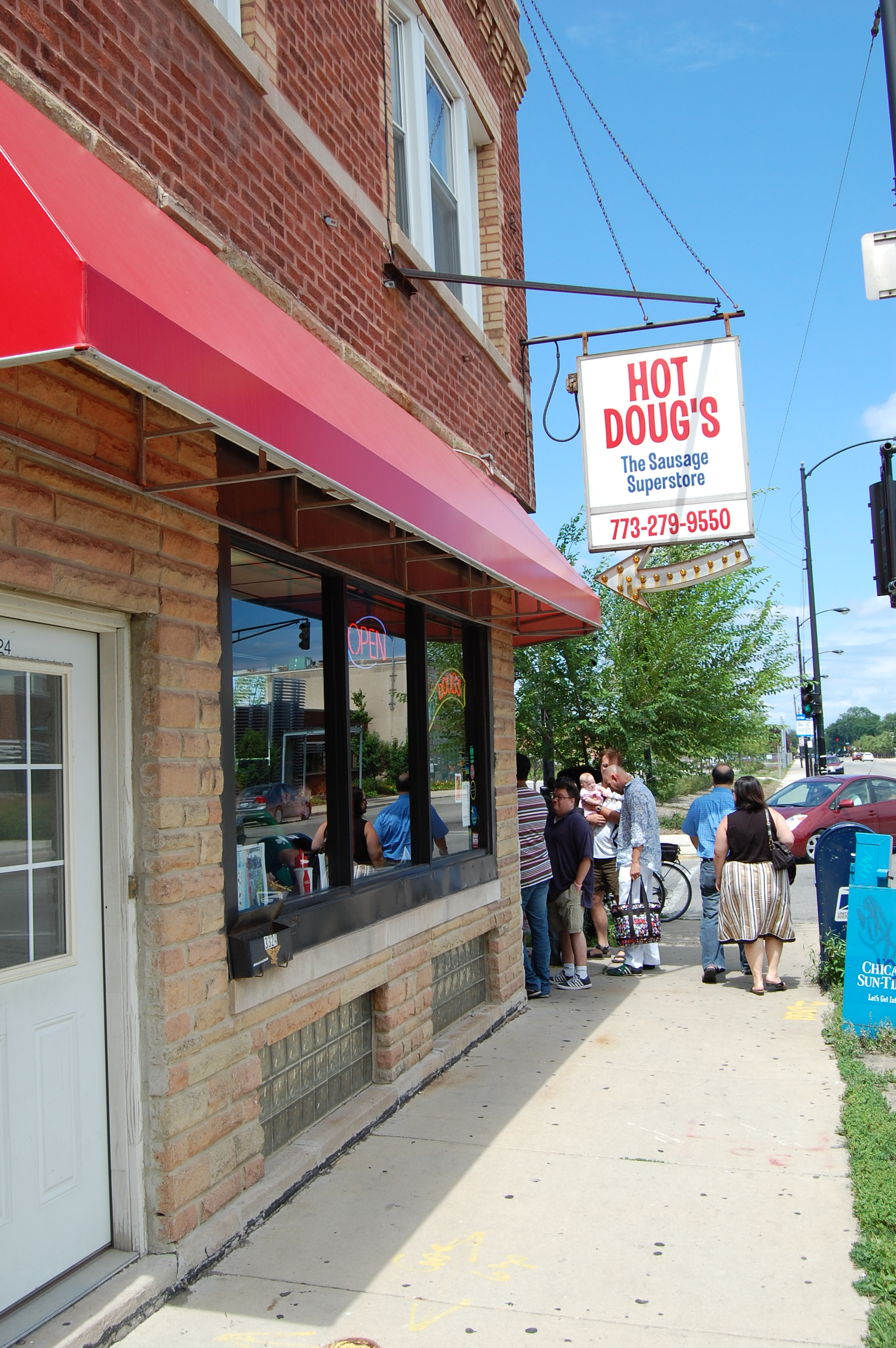 Hot Doug's is a Chicago-based restaurant, specializing in hot dogs and other encased meats. The self-proclaimed "Sausage Superstore and Encased Meat Emporium" is in its second location at 3324 North California Avenue in the city's Avondale neighborhood. Its first location, on Roscoe Street, closed after a 2004 fire.